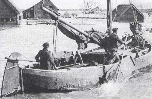 Veerhengst, Dutch type sailing ferry.